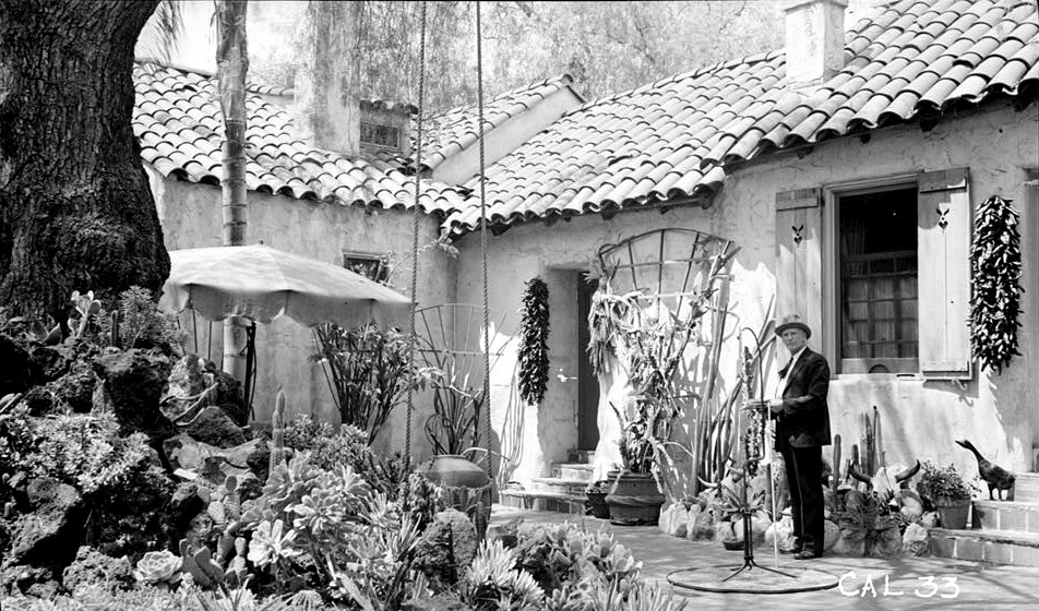 The La Casa de Jose Perez (also known as Adobe Flores). 1804 Foothill Boulevard, South Pasadena, Los Angeles County, California. Detail of patio (toward southwest). Building/structure dates: 1839 initial construction; subsequent work 1843 and 1919. National Register of Historic Places in Los Angeles County, California. From the HABS—Historic American Buildings Survey images of California.